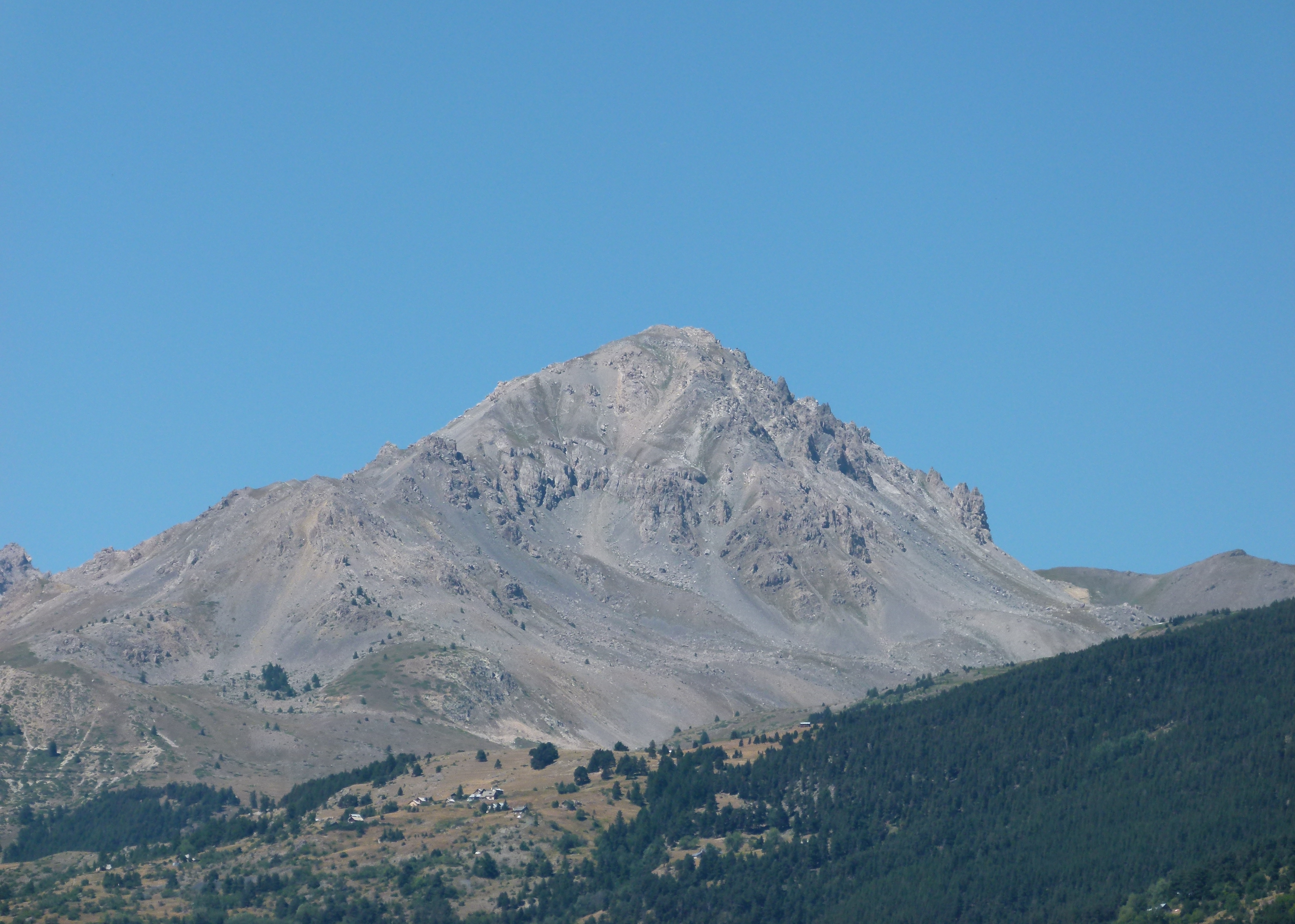 Photo taken from Briançon, showing the south-east face.